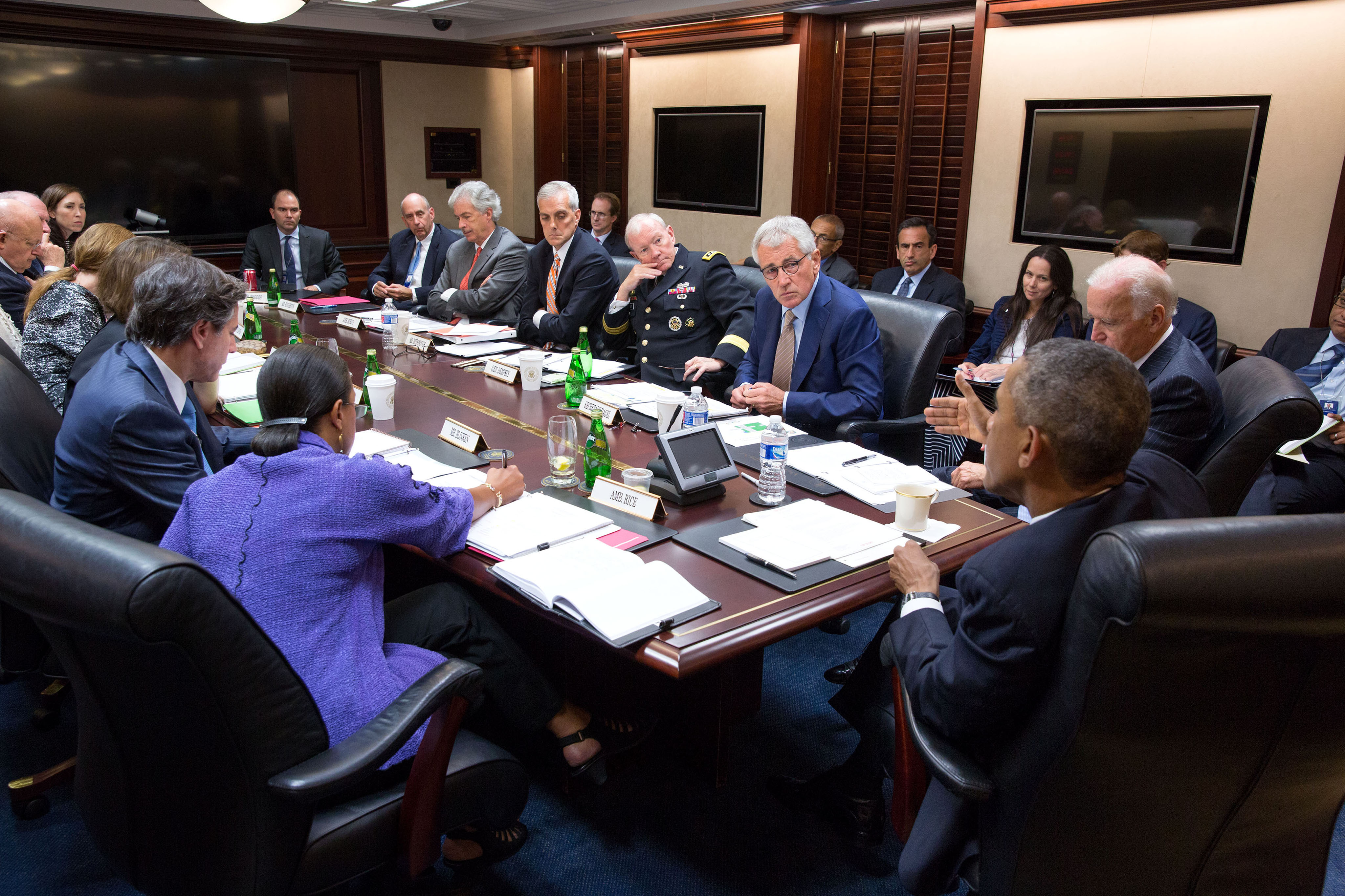 President Barack Obama and Vice President Joe Biden meet with members of the National Security Council in the Situation Room of the White House, Sept. 10, 2014. (Official White House Photo by Pete Souza) This official White House photograph is in the public domain from a copyright perspective, so while restrictions such as personality or privacy rights may apply, in general, manipulations are allowed.